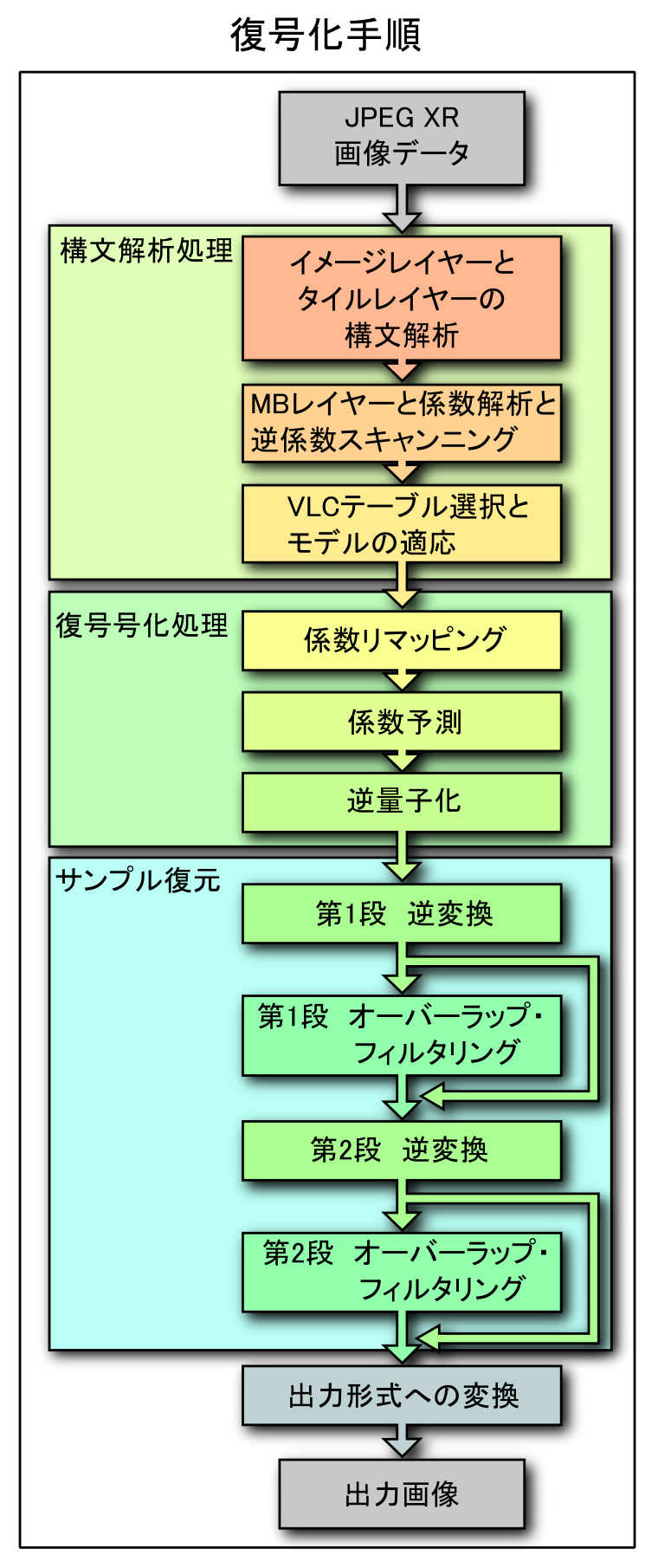 JPEG XR image decoding - block diagram (J)